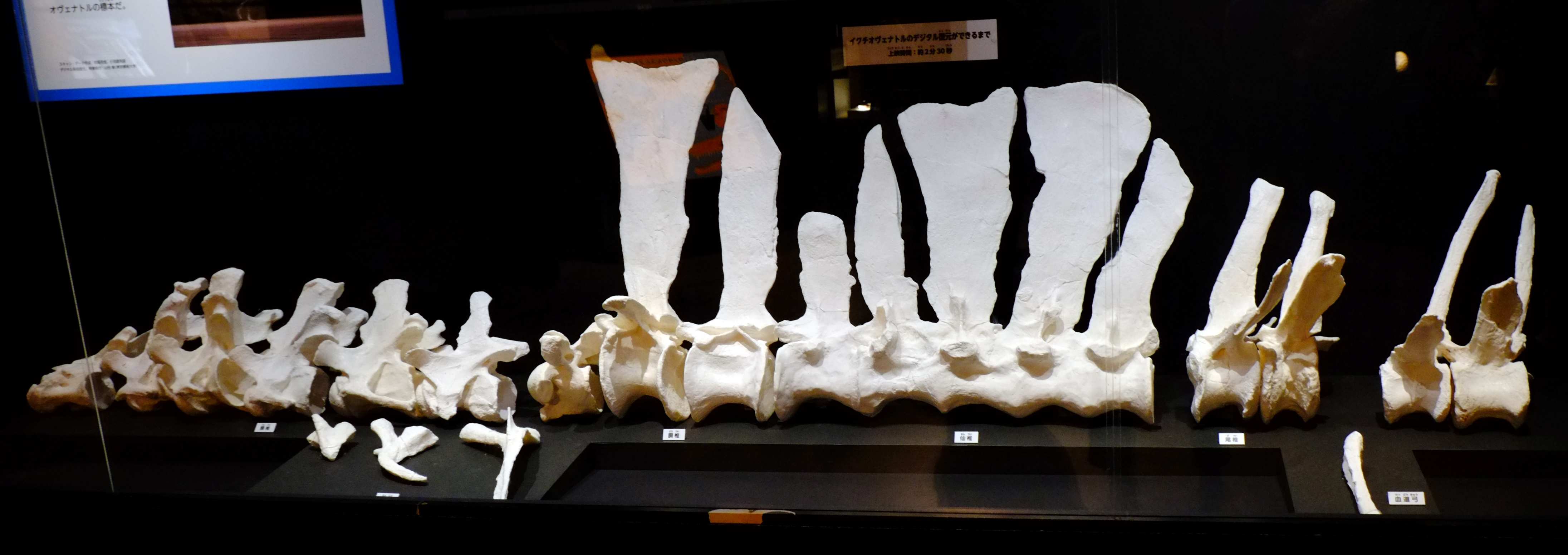 イクチオヴェナトル